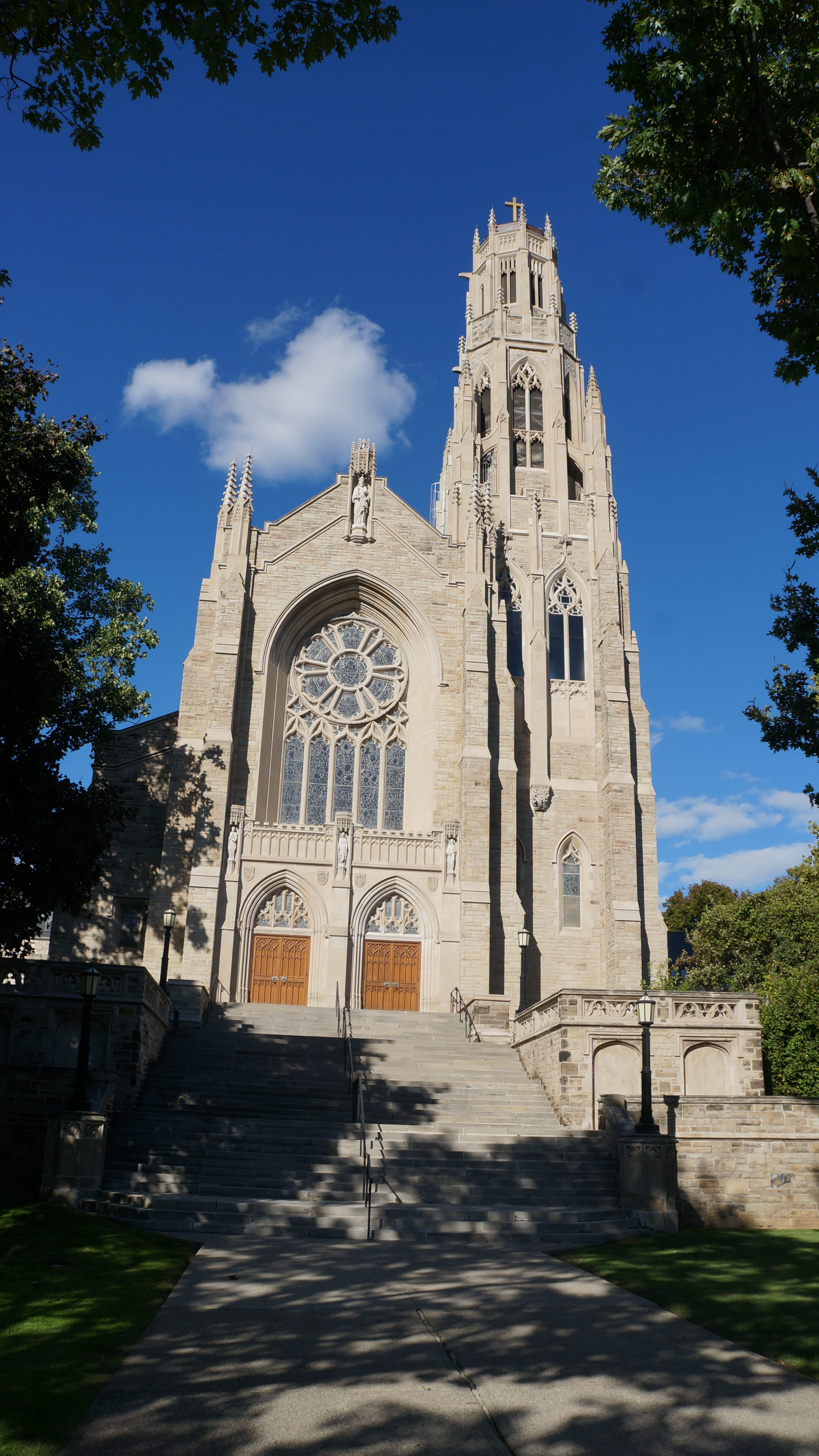 Exterior of the Cathedral Basilica of Christ the King, following a restoration that was completed in 2017